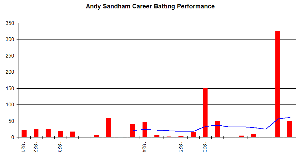 This graph details the Test Match performance of Andy Sandham. It was created by Raven4x4x. The red bars indicate the player's test match innings, while the blue line shows the average of the ten most recent innings at that point. Note that this average cannot be calculated for the first nine innings. The blue dots indicate innings in which Sandham finished not-out. This graph was generated with Microsoft Excel 2002, using data from Cricinfo and .au.